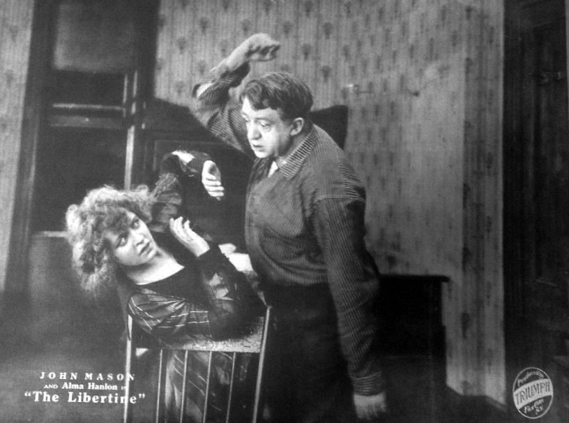 Lobby card for the American drama film The Libertine (1916).